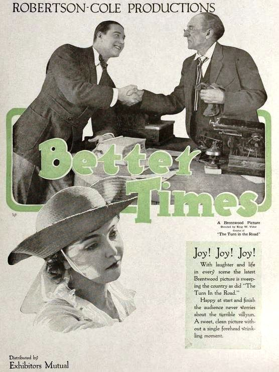 Ad for the American film Better Times (1919) with David Butler and ZaSu Pitts, page 1775 of the August 30, 1919 Motion Picture News.